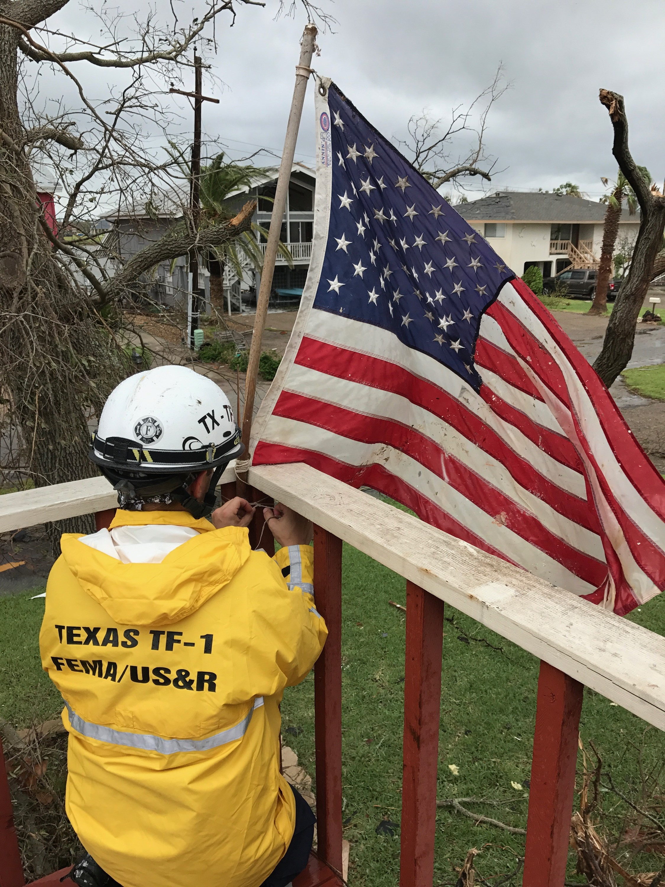 A member of Texas Task Force 1 re-hoists a fallen United States of America Flag in Rockport, Texas following landfall of the highly destructive Hurricane Harvey in 2018.